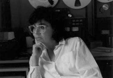 Serena Tamburini - Composer